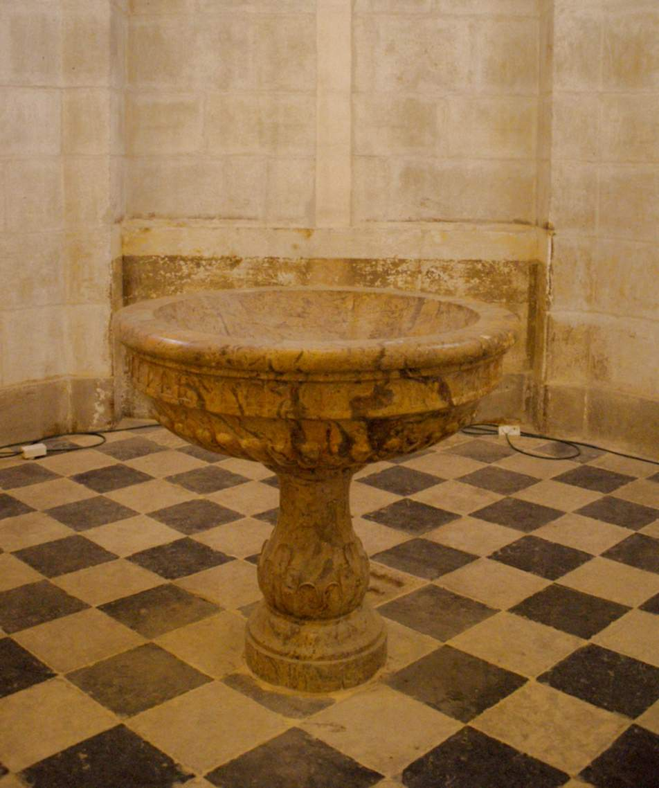 Baptisterio (Capilla del Santo Cristo) de la Catedral de Santa María (Catedral Vieja) de Vitoria-Gasteiz